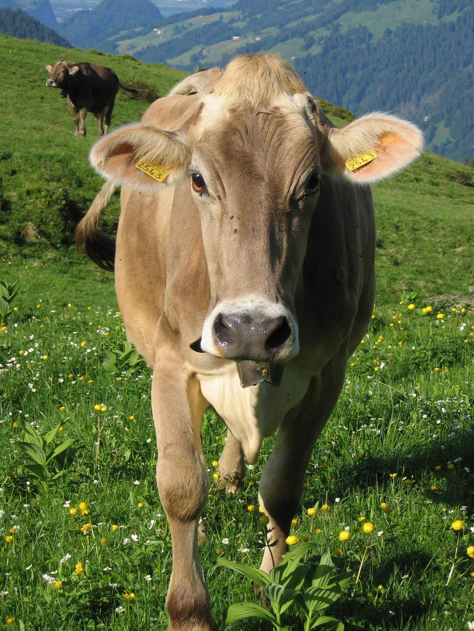 Cow in Vordersäss, Rätikon, Switzerland.